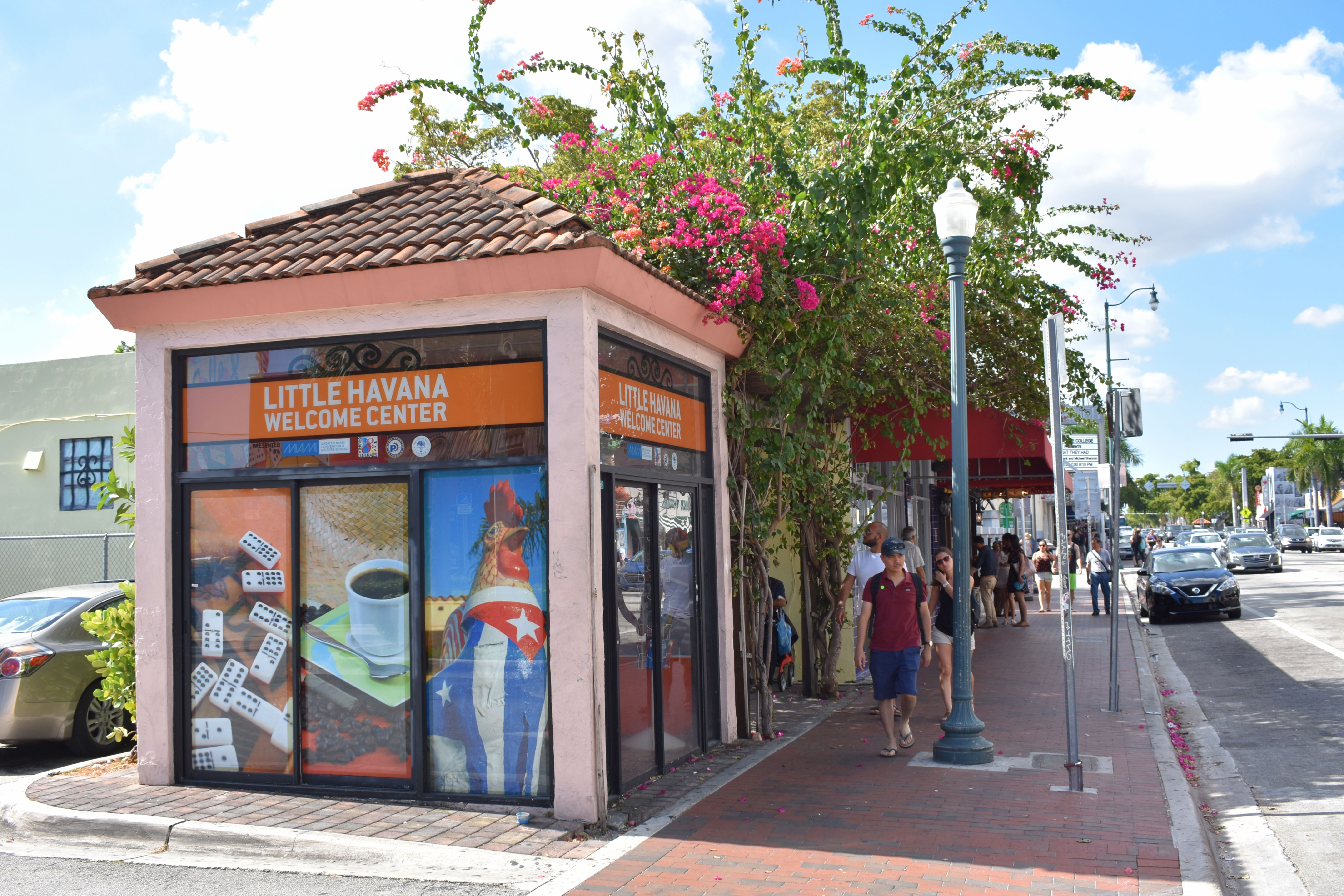 The welcome center at the Little Havana neighborhood of Miami, Florida